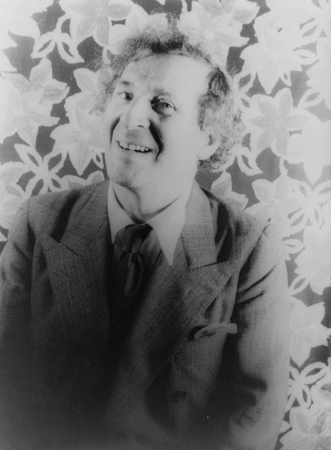 Marc Chagall, 4 July 1941